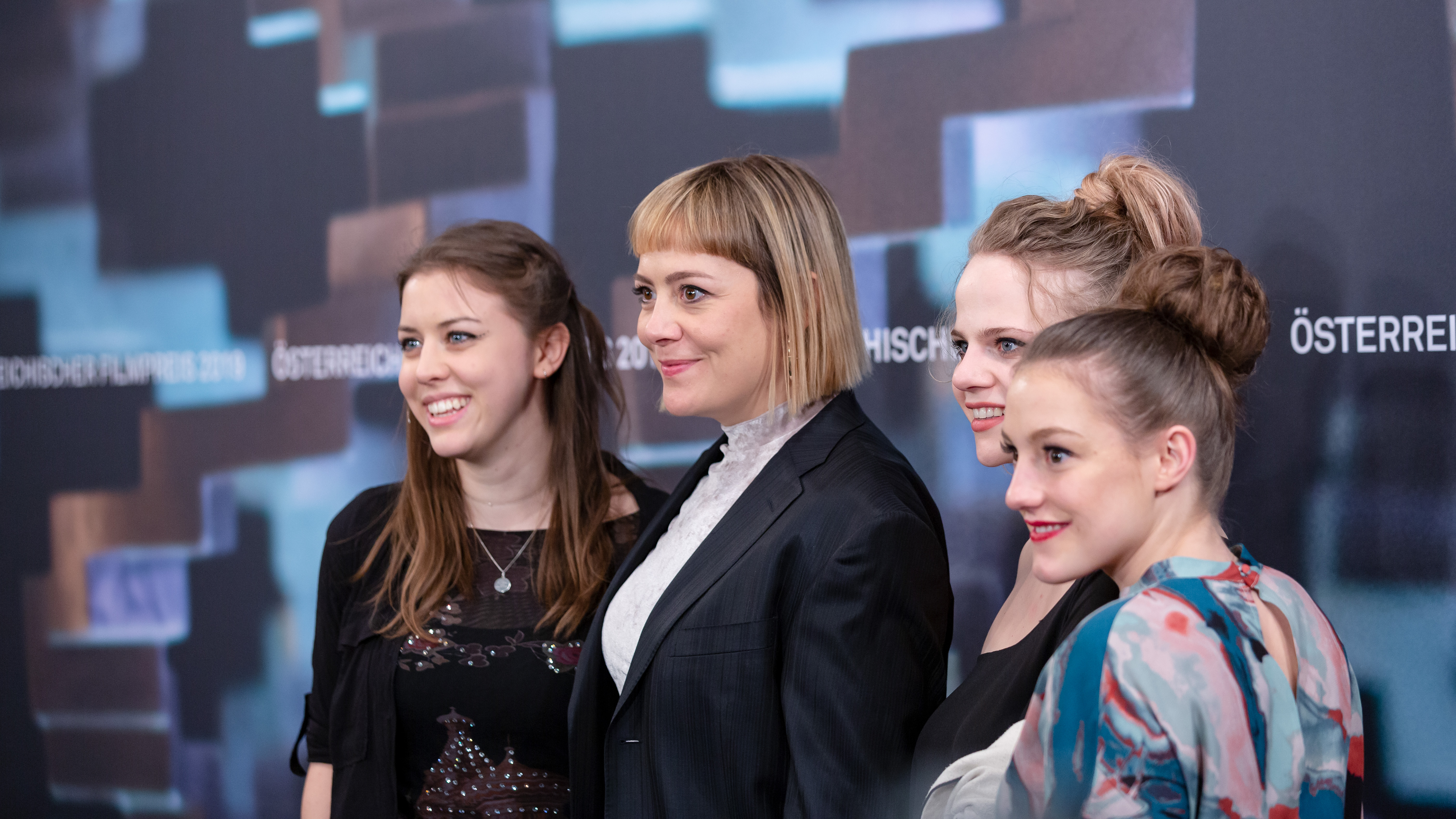 Katharina Mückstein and Sophie Stockinger (director/writer and main actress "L’Animale") with further actresses, photo call at the Austrian Film Awards 2019 (Rathaus, Vienna,Austria).